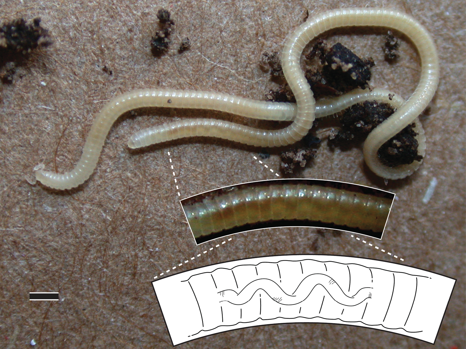 Illacme plenipes female with 170 segments and 662 legs (specimen # SPC000931). Top inset, 2× magnified view of posterior segments with corkscrew-shaped metenteron visible through cuticle; bottom inset, 3× magnified illustration of corkscrew-shaped metenteron. Scale bar 1 mm.